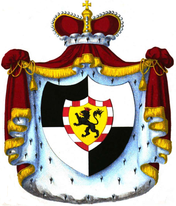 Principality of Hohenzollern-Sigmaringen